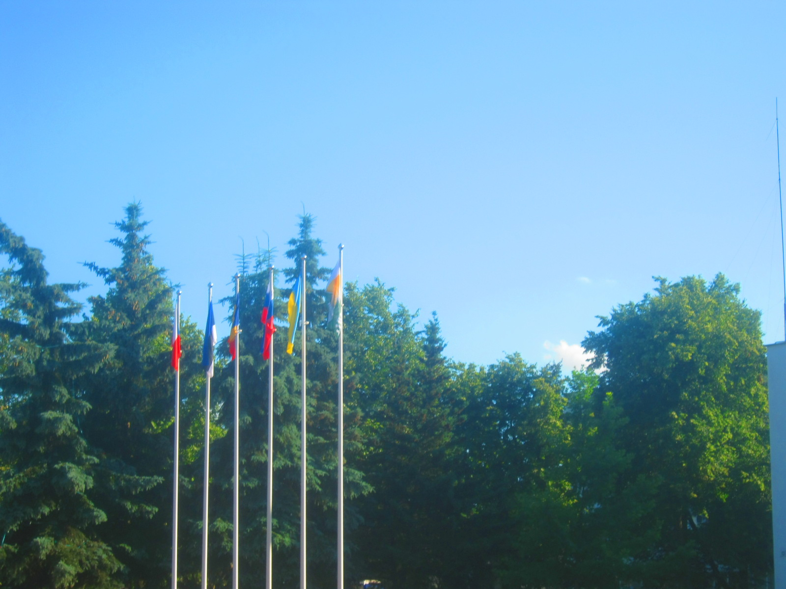 Flag of Johns Republic together with foreign flags